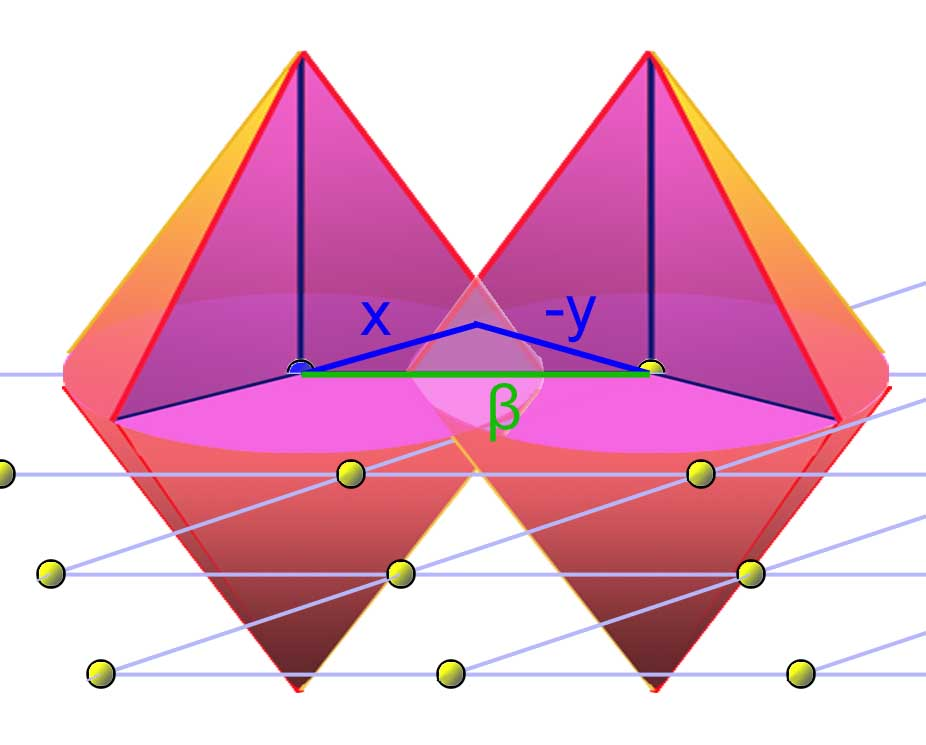 Minkowski's theorem's illustration, about geometrical arithmetics.